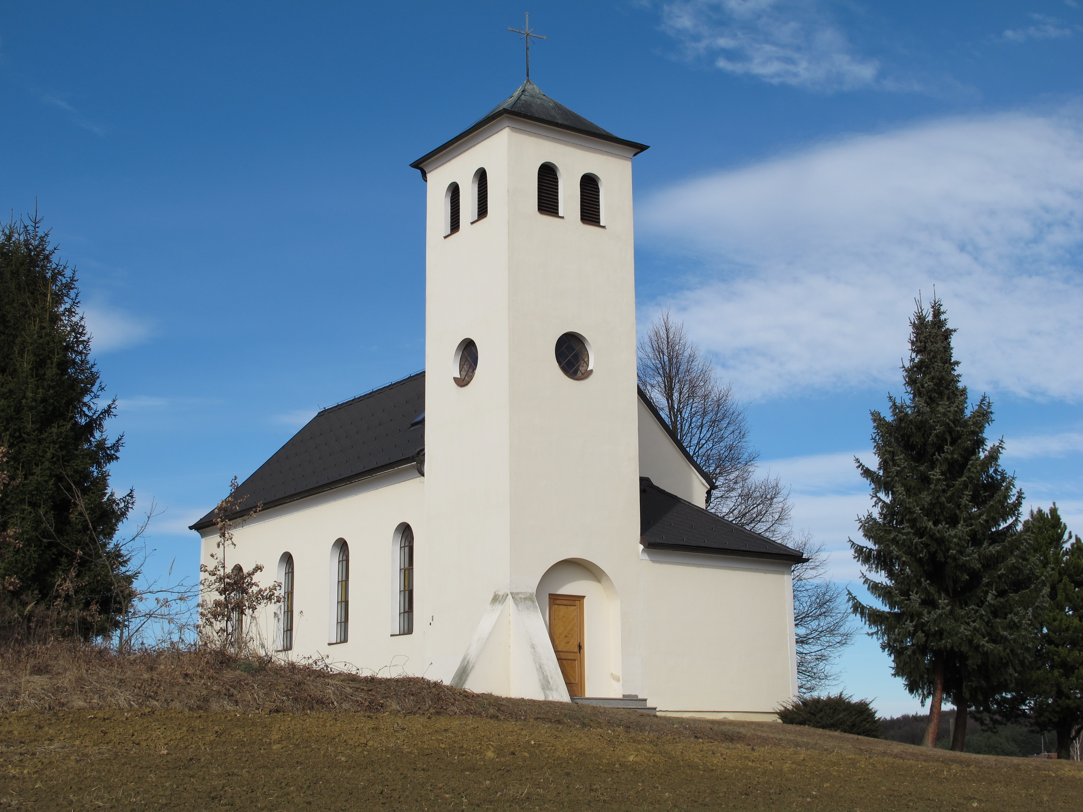 Kirche Neustift bei Güssing